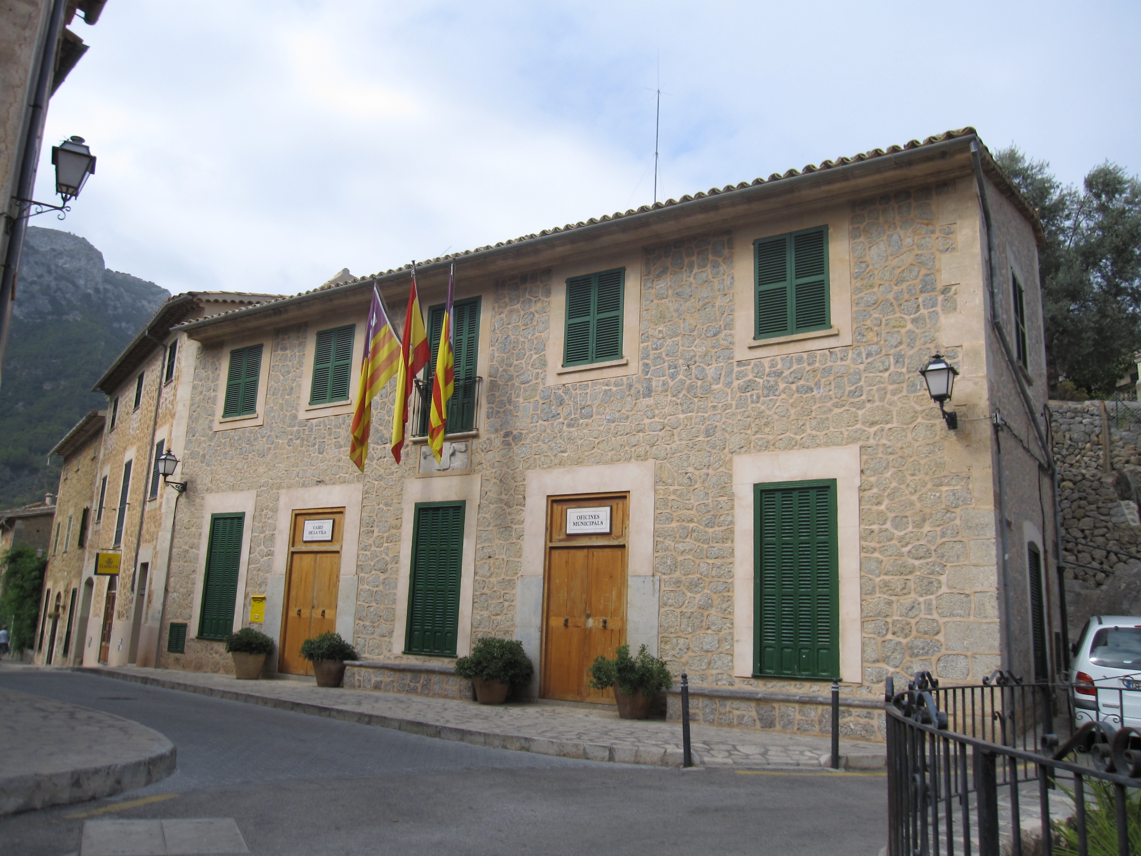 Town hall of Deià